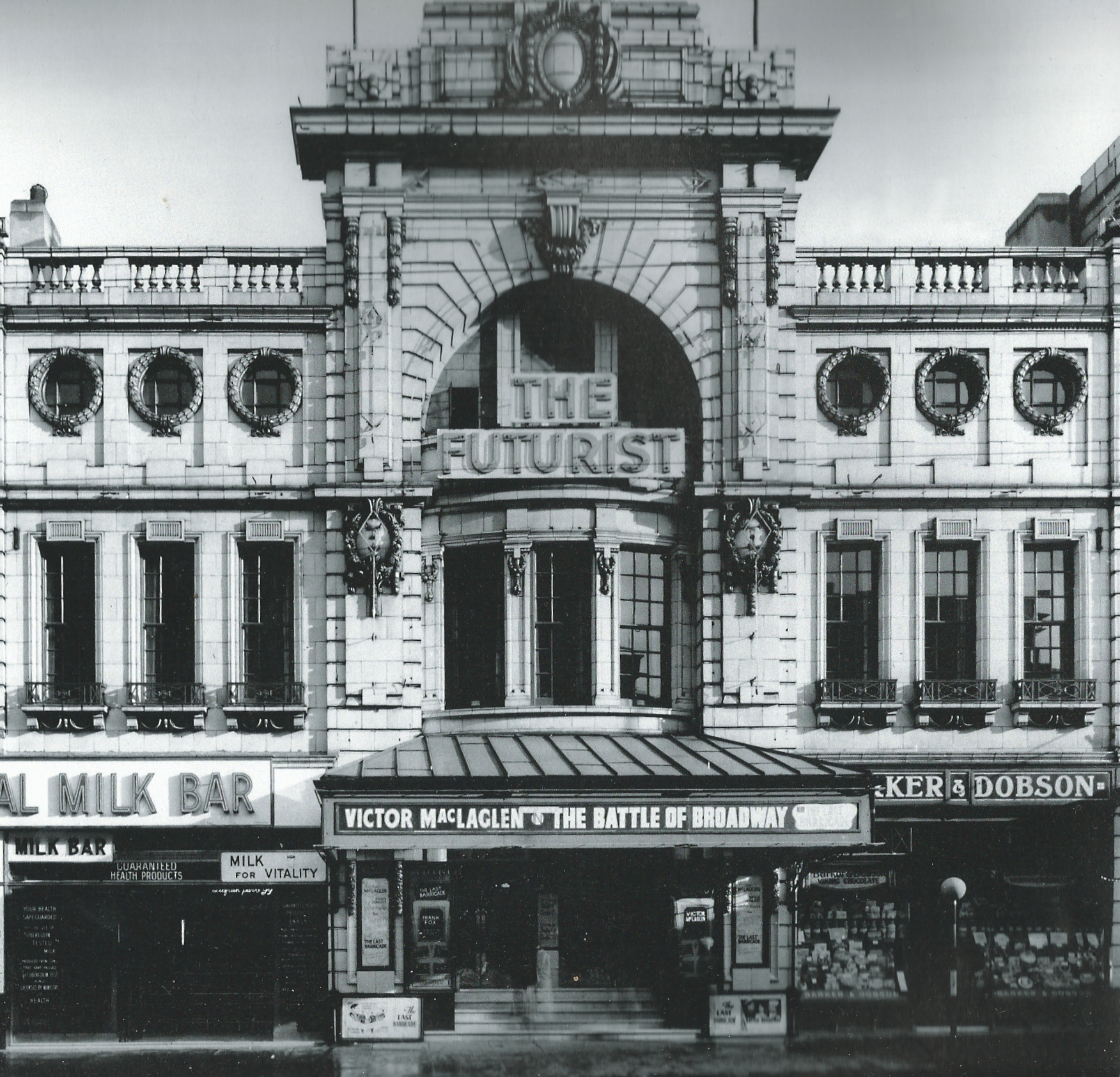 A view of the cinema's facade taken in 1938. Note the differences between this and the modern viewpoint.